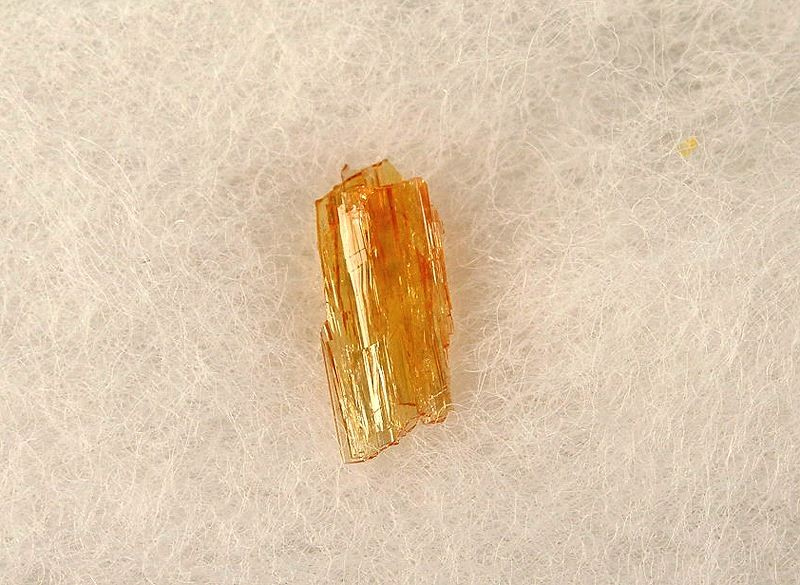 Warikahnite Locality: Tsumeb Mine (Tsumcorp Mine), Tsumeb, Otjikoto (Oshikoto) Region, Namibia (Locality at ) Size: 0.9 x 0.4 x 0.1 cm. A shimmering, almost metallic, and gemmy crystal of the very rare zinc arsenate, Warikahnite. This attractive amber-colored crystal is well-terminated, has superb luster, and is very gemmy. It is top quality for the species. Ex. William Pinch Collection.